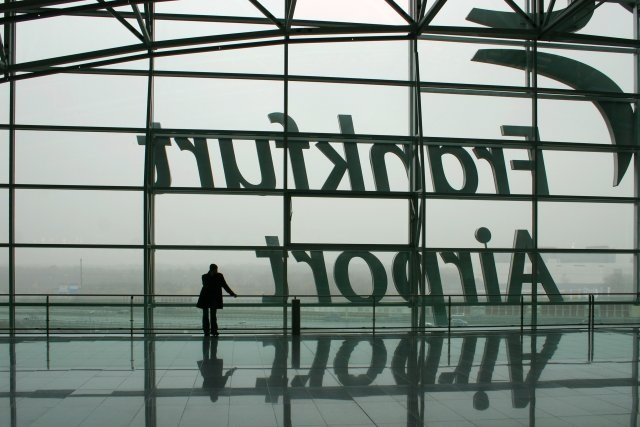 Terminal 1, Flughafen Frankfurt am Main, Frankfurt International Airport